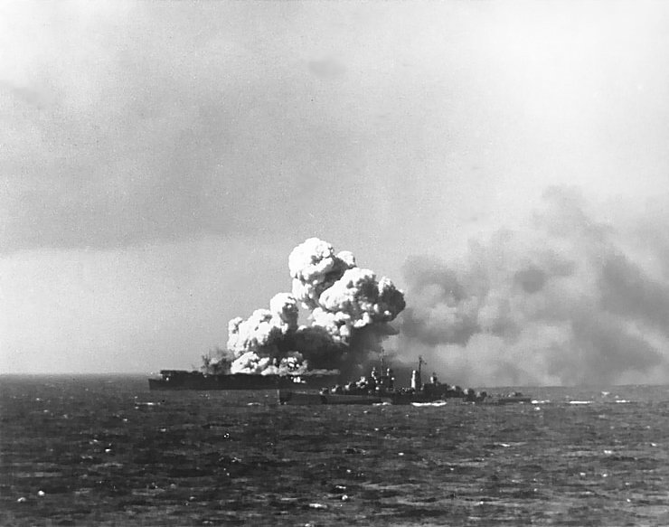 The U.S. Navy light aircraft carrier USS Princeton (CVL-23) afire at about 1004 hours on 24 October 1944, soon after she was hit by a Japanese bomb during operations off the Philippines. This view shows smoke rising from the ship's second large explosion, as USS Reno (CL-96) steams by in the foreground. Photographed from USS South Dakota (BB-57).